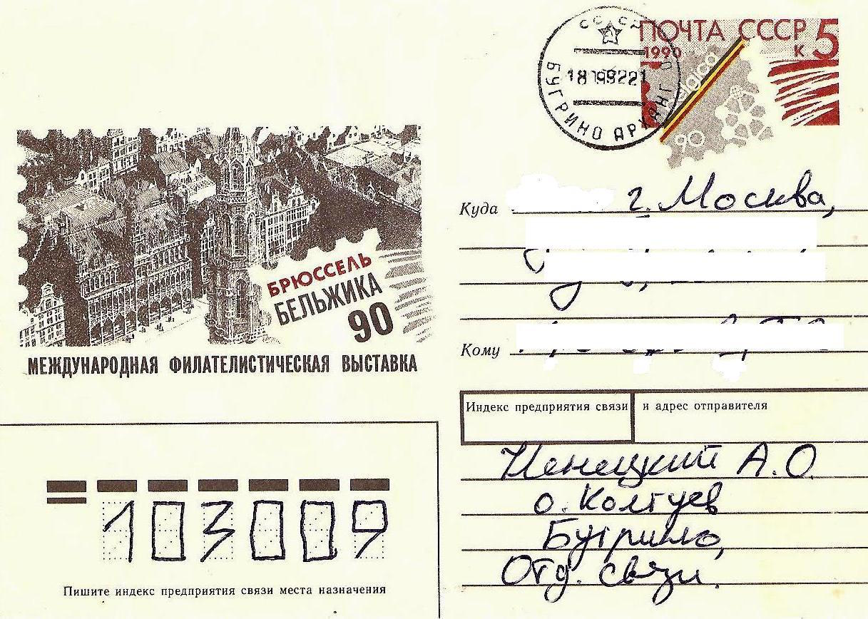 Soviet Union stamped envelope, 1990. Belgica '90, international philatelic exhibition.